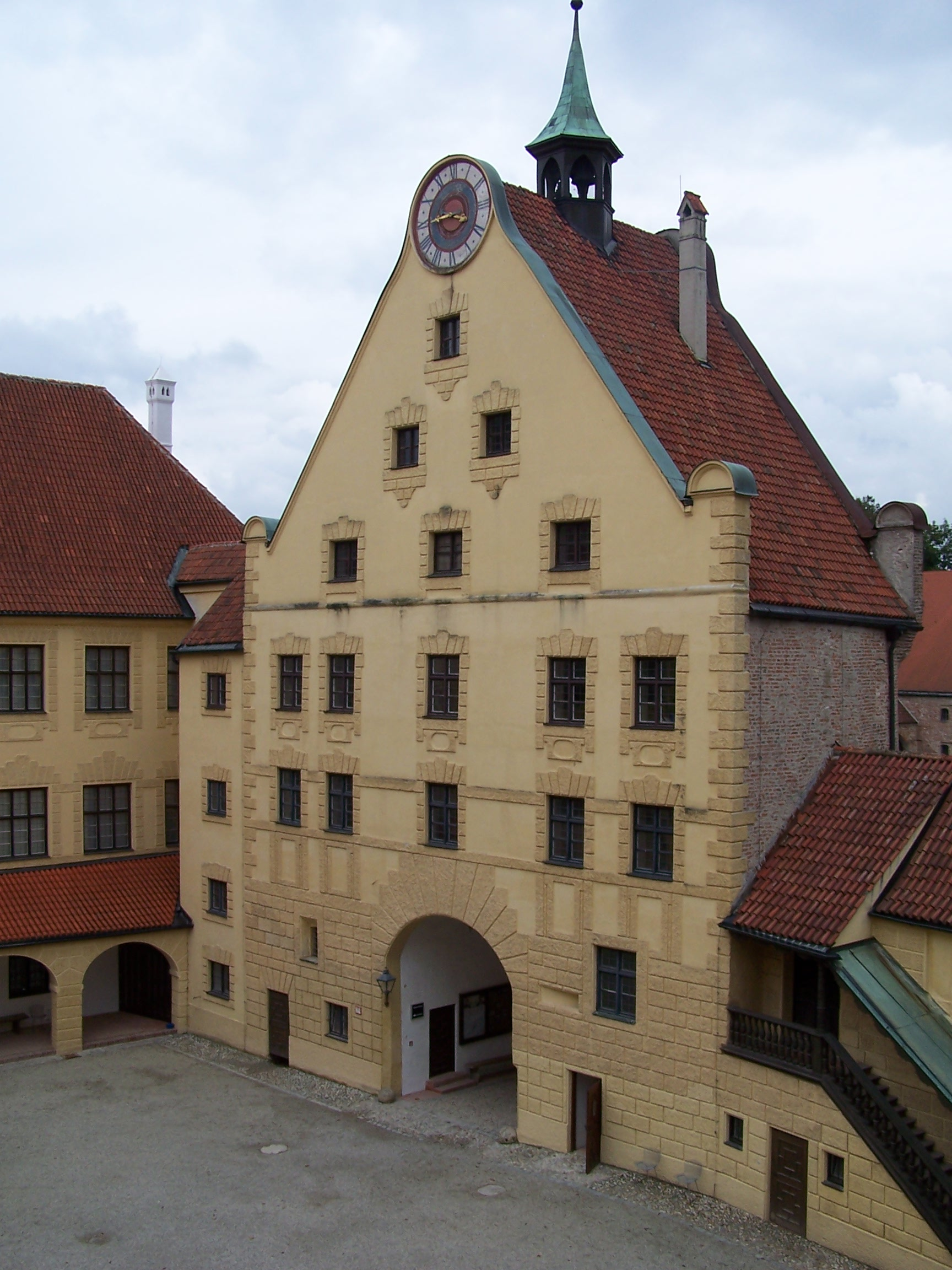 Burg Trausnitz (inner yard)